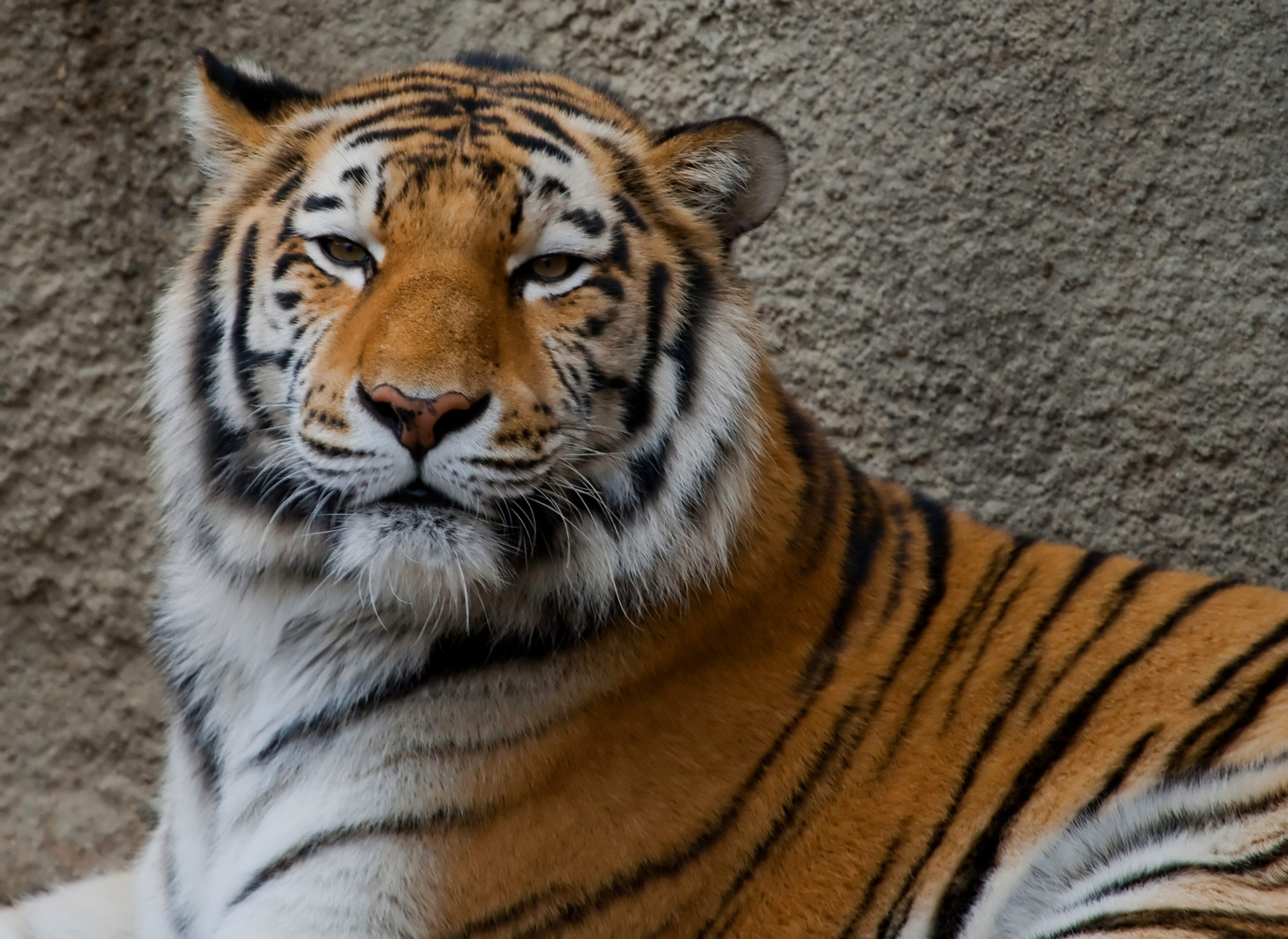 For Thanksgiving we took a road trip to the Cleveland Zoo - finally have gotten around to processing some of the pics This is the first set (there will be 2 sets with 7 photos each)